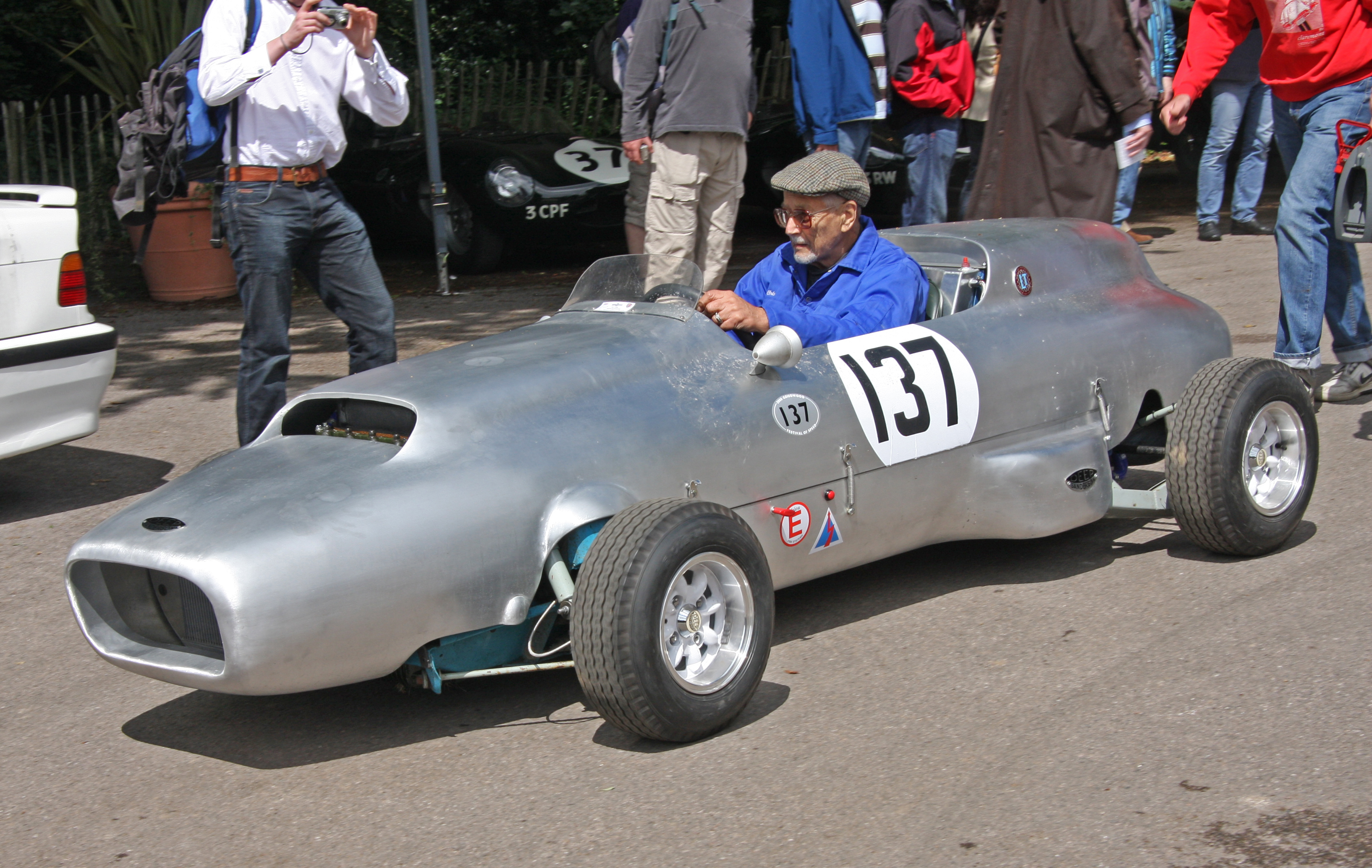 Built 1963 by Lawrencetune. Two Mini Cooper engines - front and rear. 2 X 1.1 litre 4 cylinder